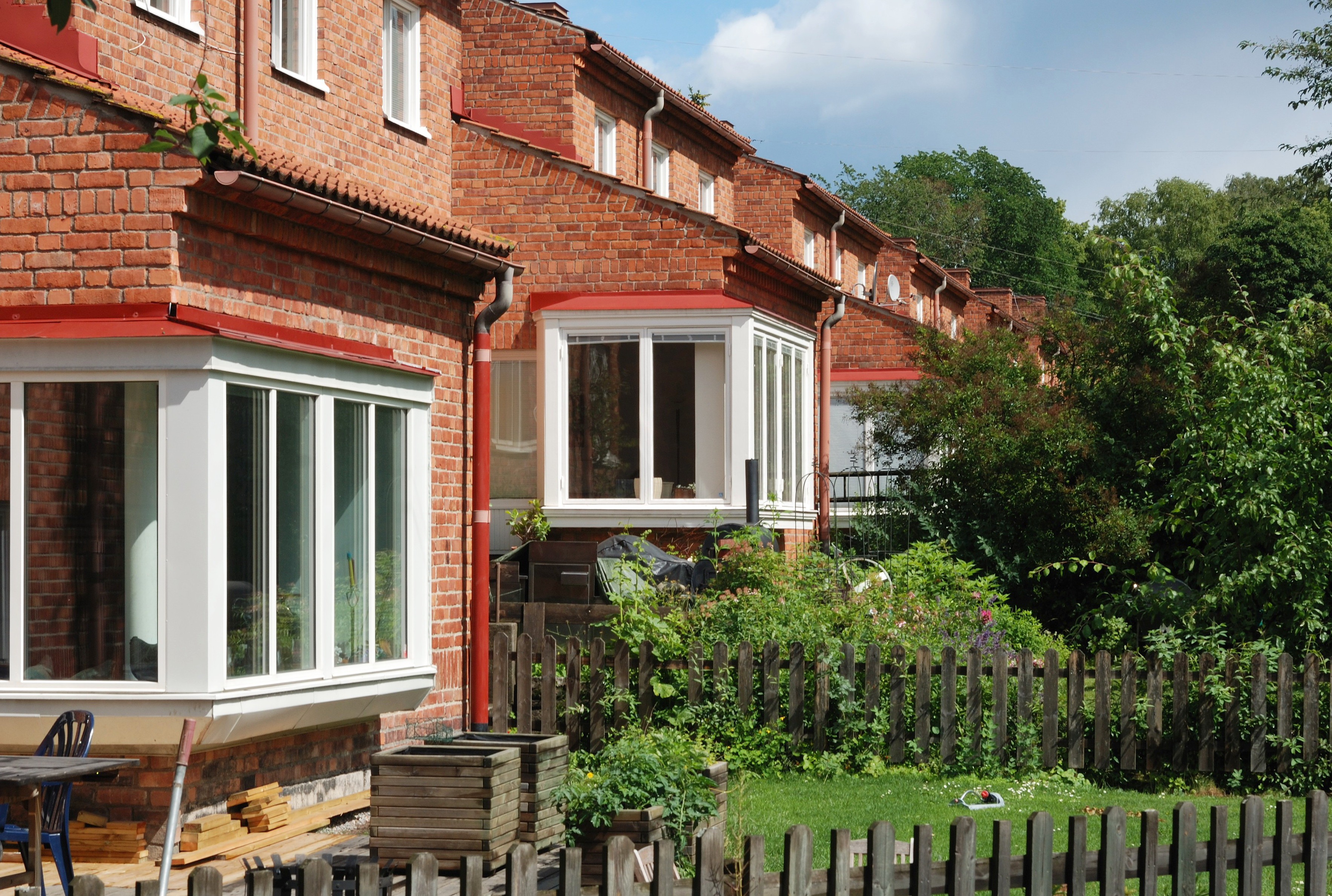 Townhouses from the 1940s in Solna Kyrkby, Solna. South facade